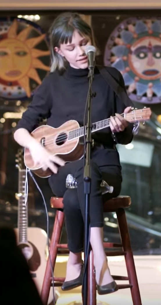 Grace VanderWaal performs at a coffee house in 2018.